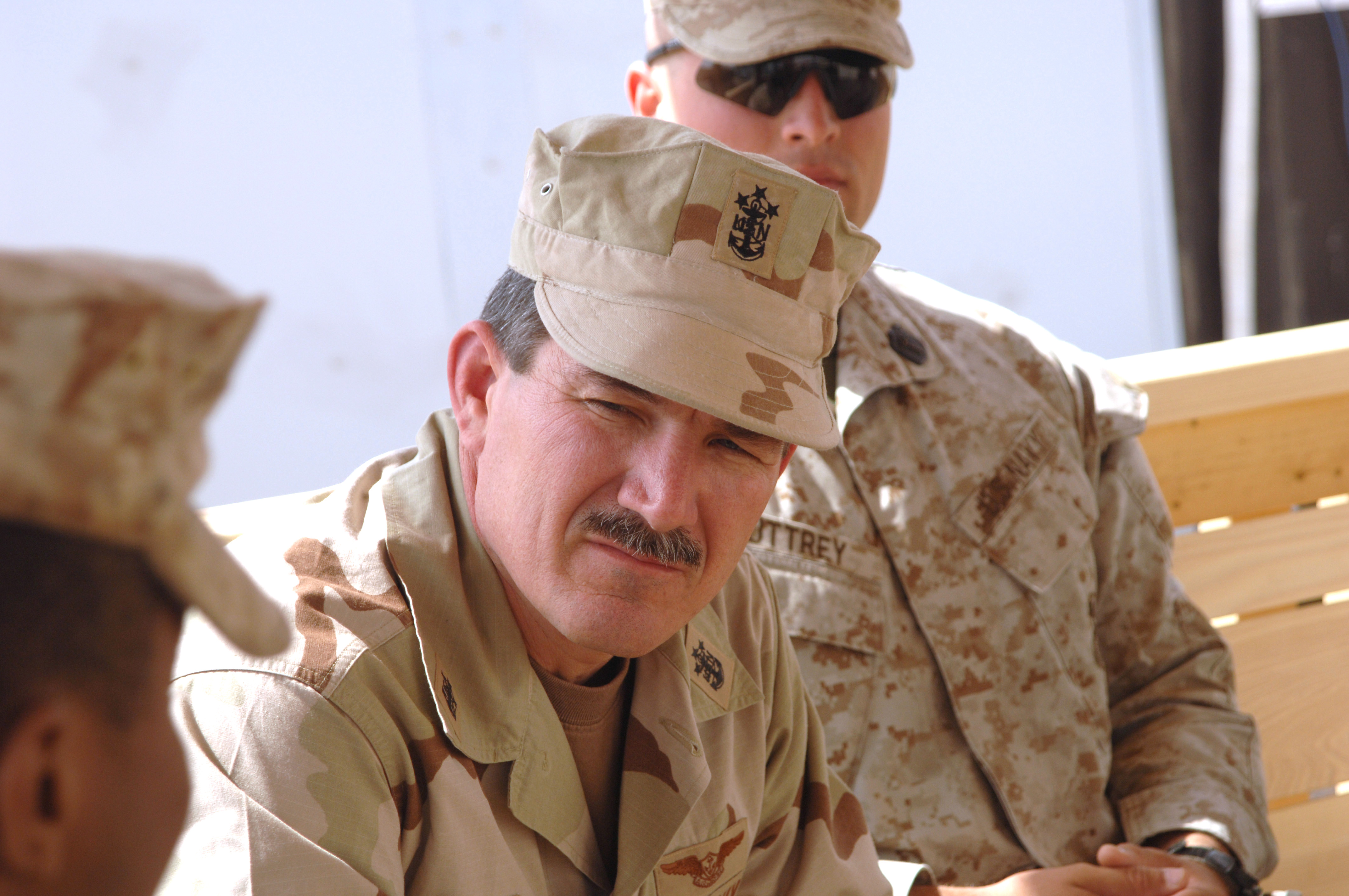 Camp Ashraf, Iraq (March 19, 2006) - Master Chief Petty Officer of the Navy (MCPON) Terry Scott talks with Sailors assigned to Camp Ashraf. Scott ate lunch and talked to the Sailors before finishing his tour. MCPON spent a week in the U.S. Central Command's area of responsibility (AOR), where he visited and talked with thousands of Sailors. U.S. Navy photo by Chief Journalist Daniel Sanford (RELEASED)